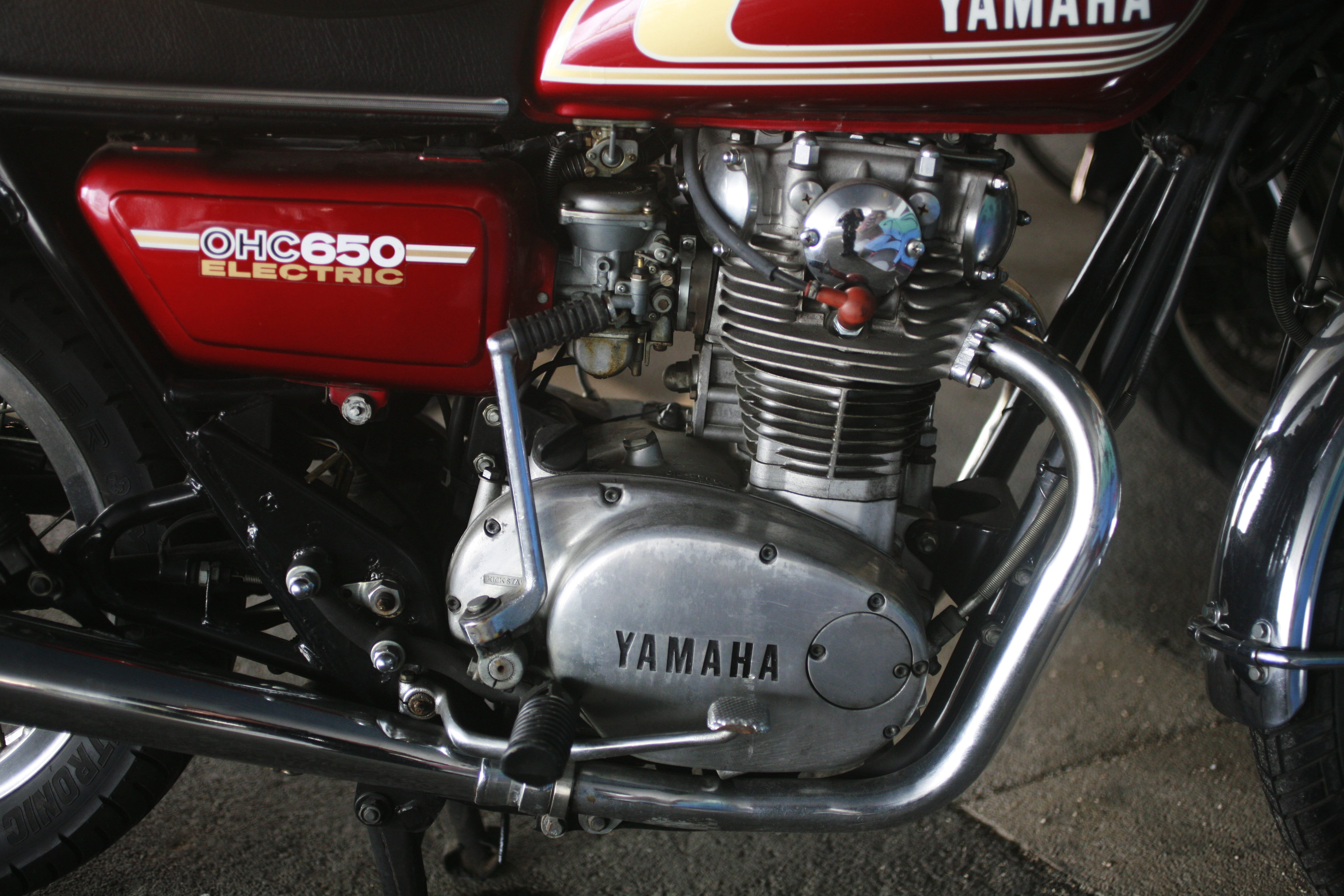 Yamaha XS 650